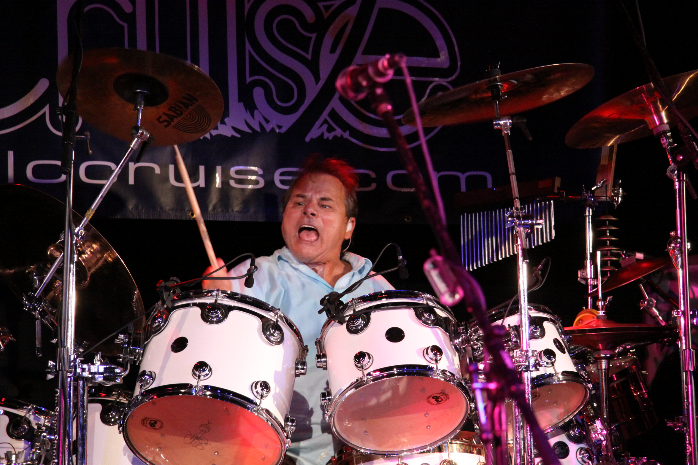 Steve Price, founding drummer of Pablo Cruise. The Blue Goose, Loomis, California. July 10, 2009